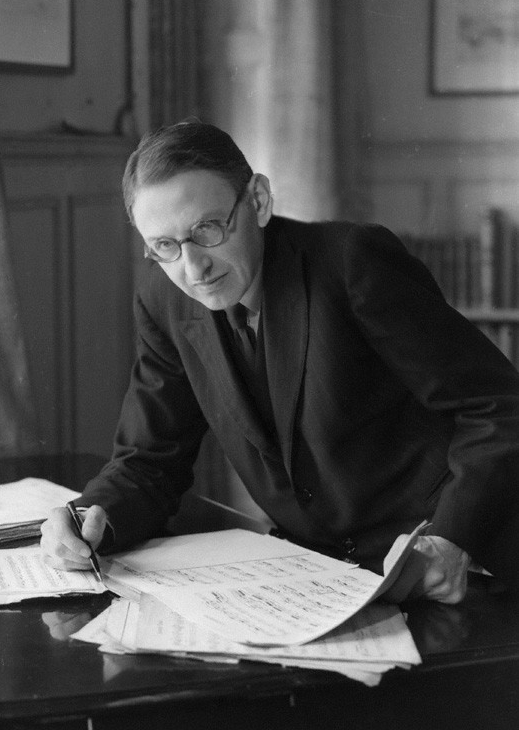 Eric Blom, photograph by Howard Coster, quarter-plate film negative, 1942